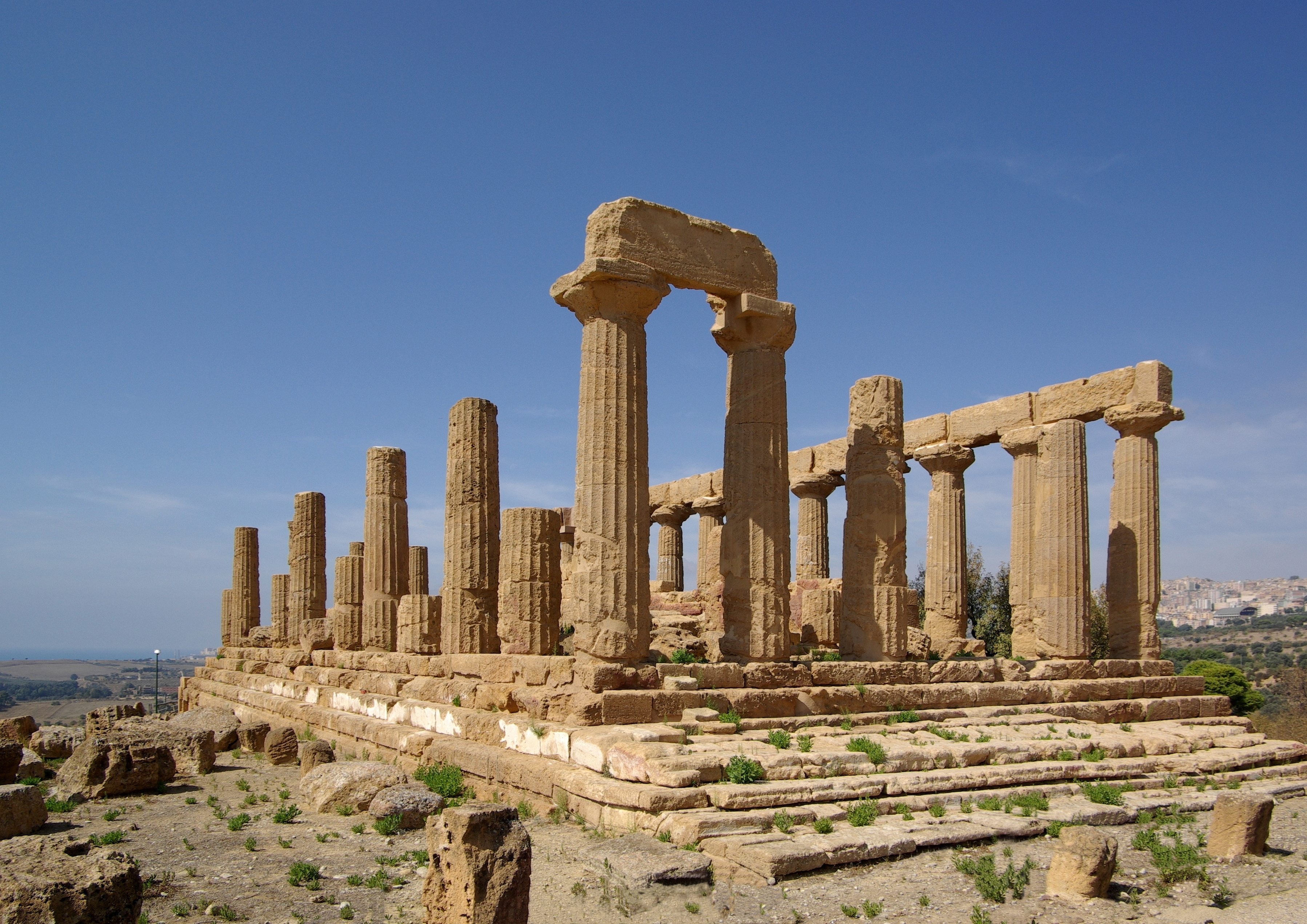 Italy, Sicily, Agrigento, Valley of the Temples, Temple of Juno Lacinia